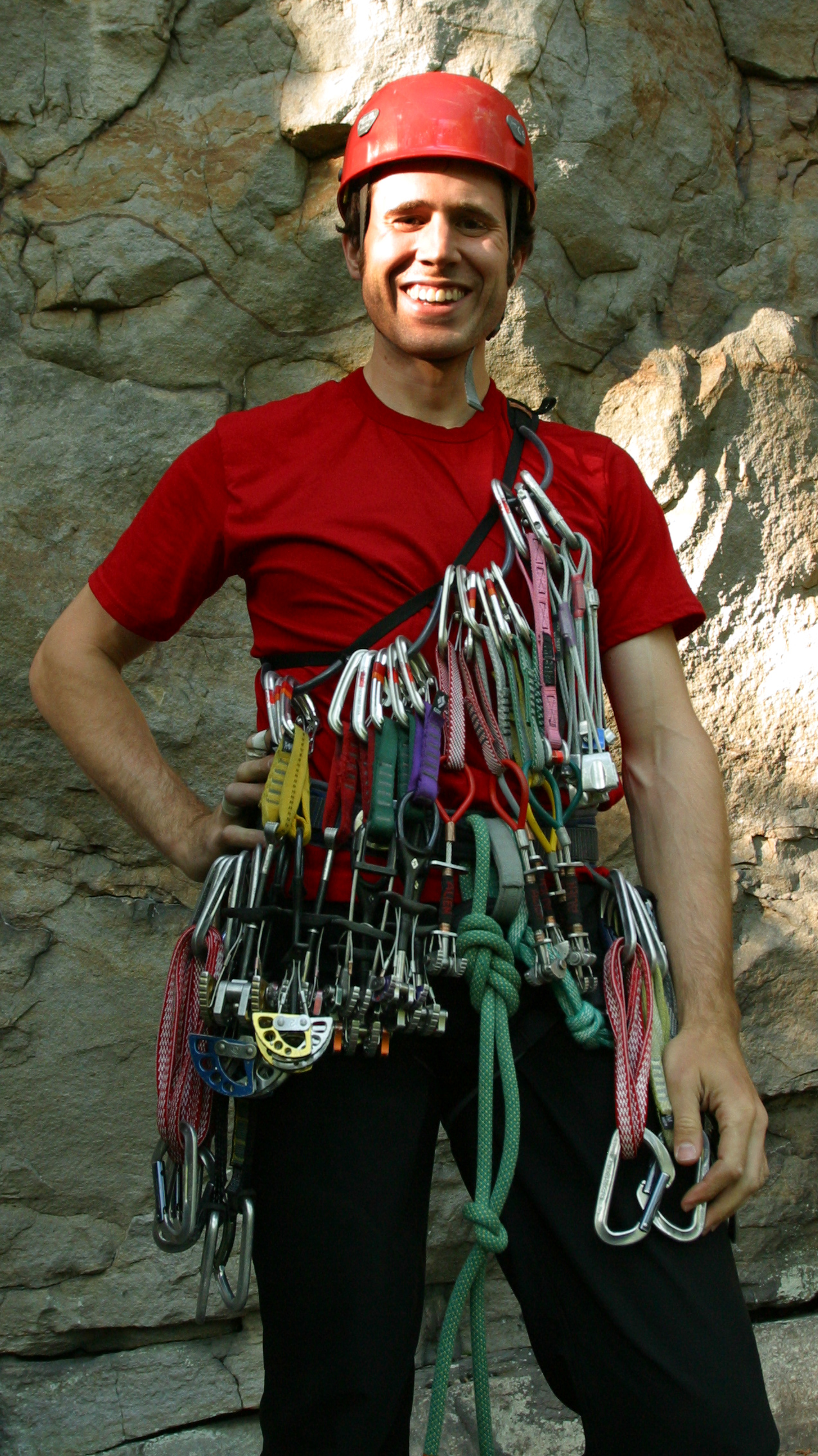 Rock climber with rope, harness, helmet, SLCDs, nuts, quick draws, carabiners, and tape.